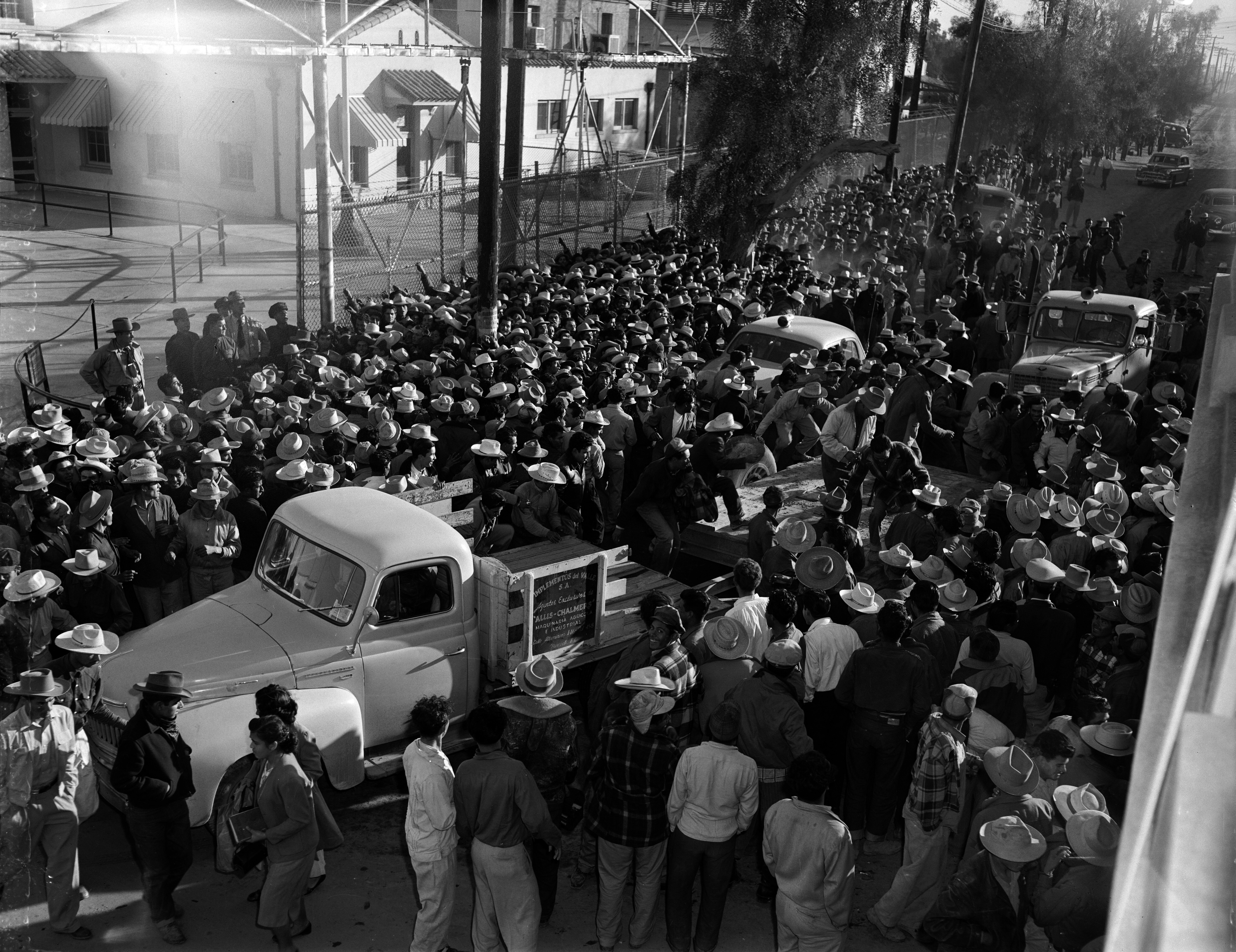 Mexican workers await legal employment in the United States, Mexicali, Mexico